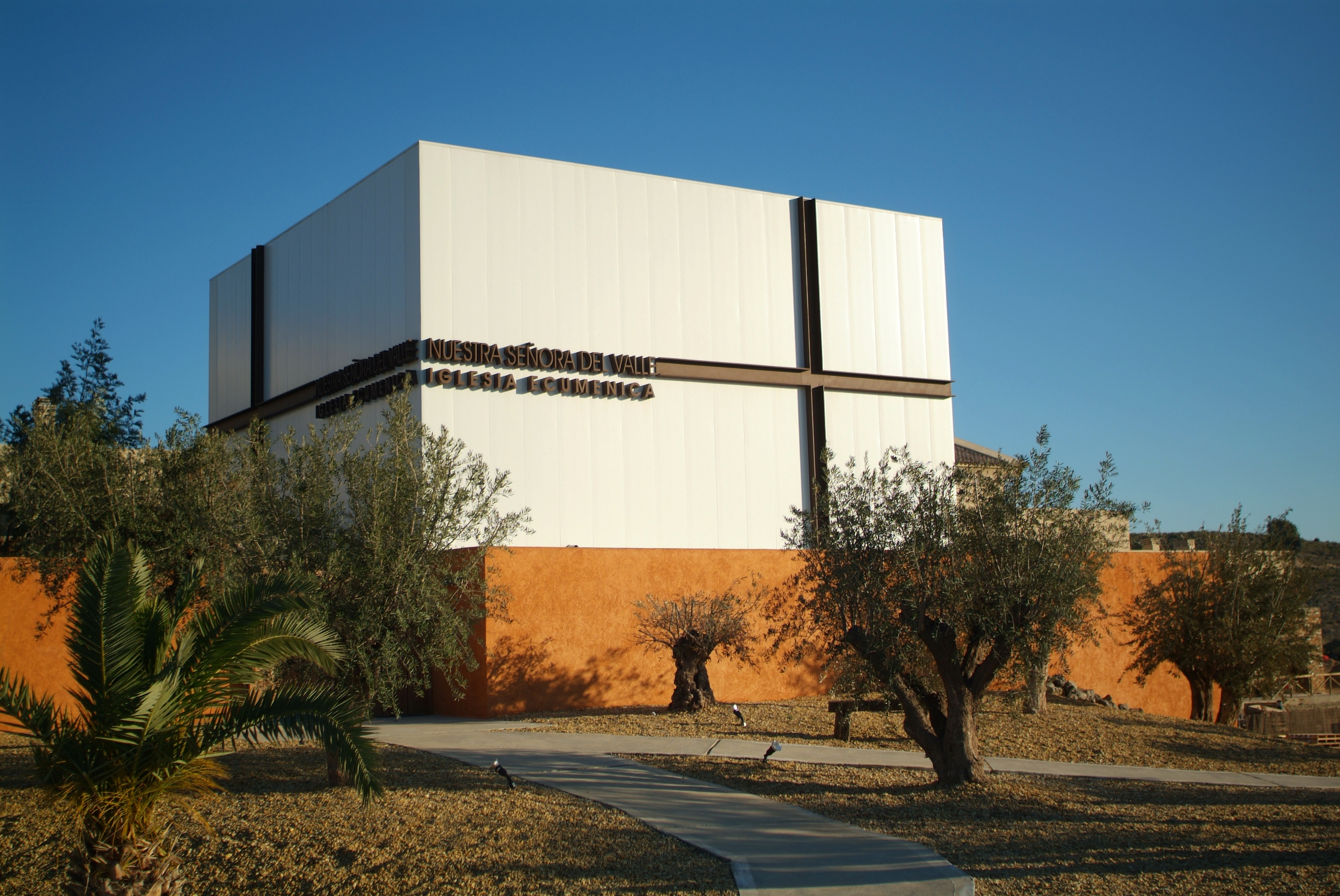 Our Lady of the Valley Chapel. Valle del Este. Vera. Almeria. Spain Capilla Vallejo Arquitectos.